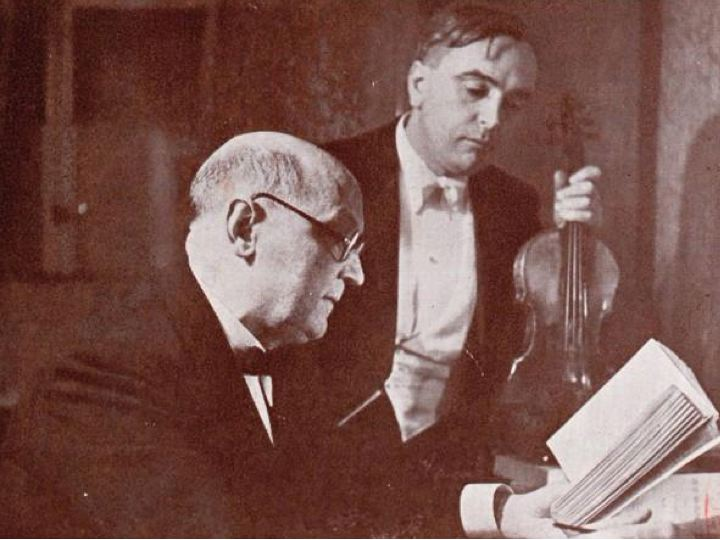 Picture taken in 1937 of the writer and french academician Georges Duhamel and violonist Marius Casadesus.